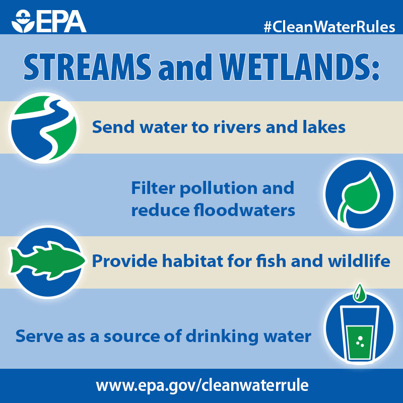 Science shows us why it is important to protect streams & wetlands with our Clean Water Rule.